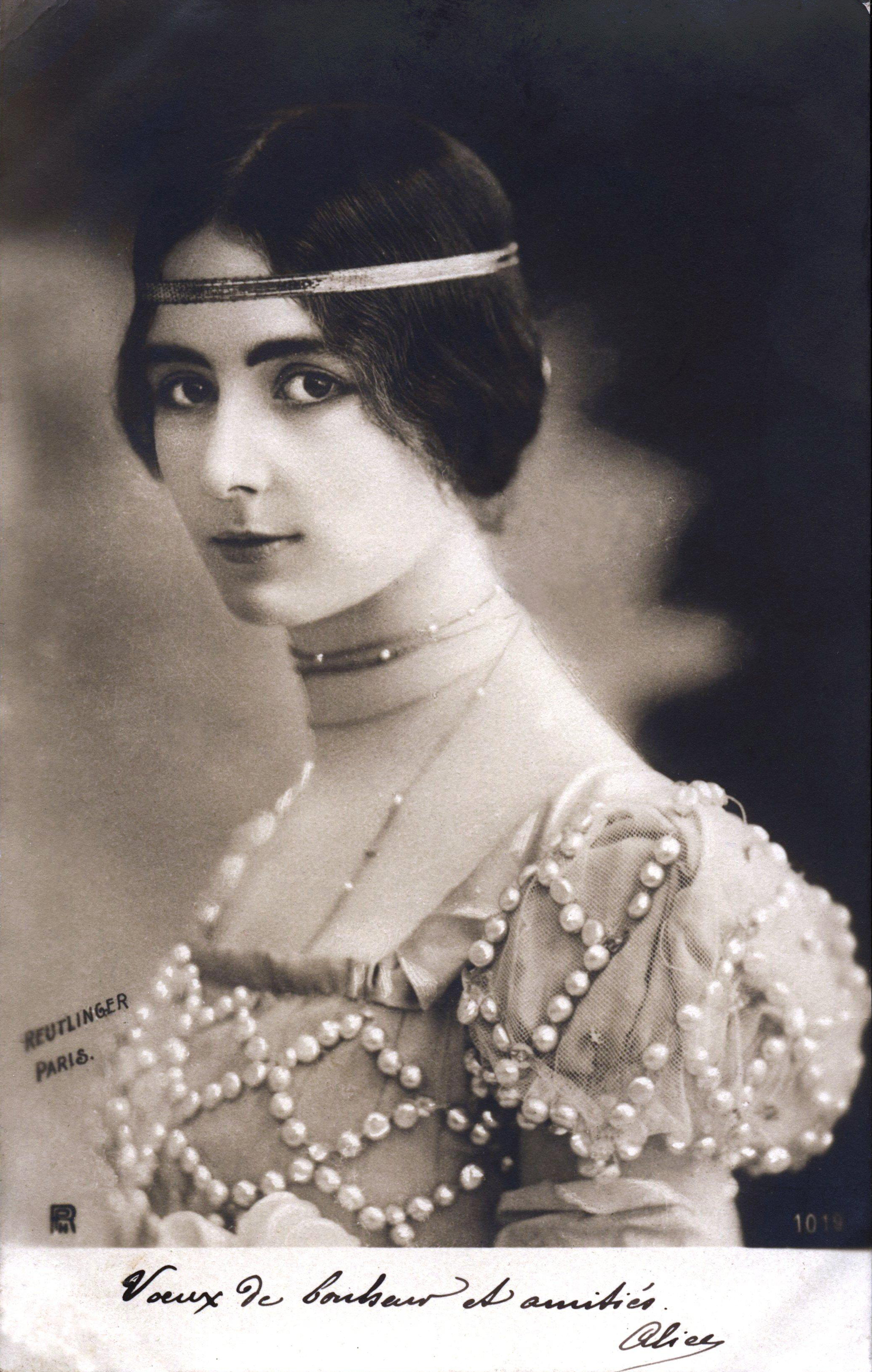 [Cléo de Mérode]. 600dpi scan from used postcard. Postmark traces and other marks removed. Brightness adjusted. Sent on 1901-12-30 by Alice from Ville de Belfort (Territoire de Belfort) to Mademoiselle Marie Faillette in Clermont-en-Argonne (Meuse). Stamped with two 5 centimes stamps. Dress identical to that shown by ARTE in "The beauties of the night or the end of the Belle Epoque" on 2012-12-31 in a dance sequence (at 14 minutes).